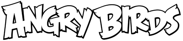 The official logo of Angry Birds used from 2015 to present.